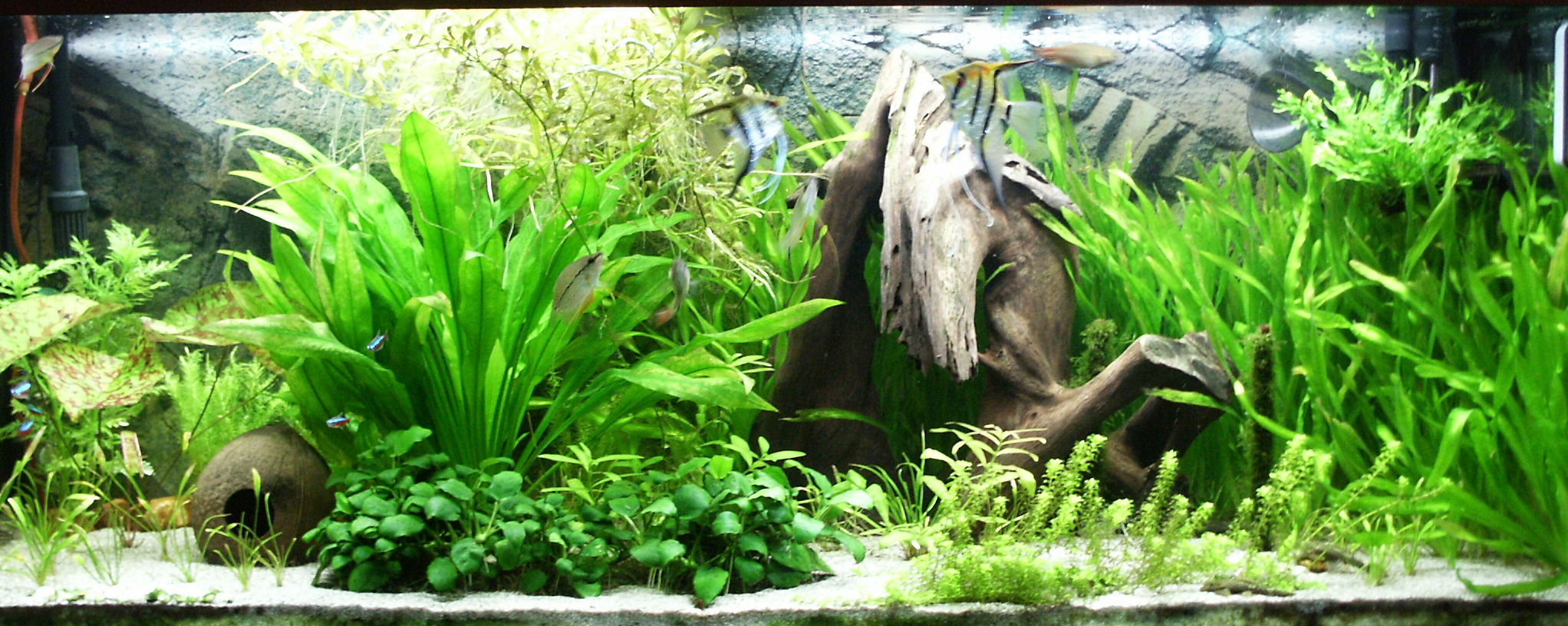 240 litres aquarium with different fishes, plants and a big root.